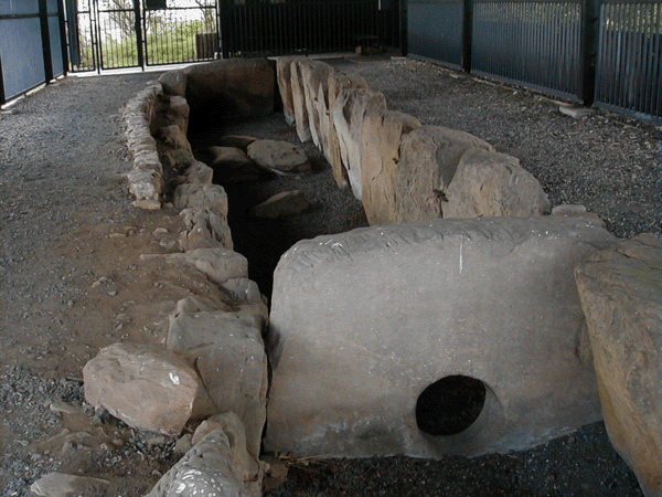 Züschen tomb. own photo (2000)